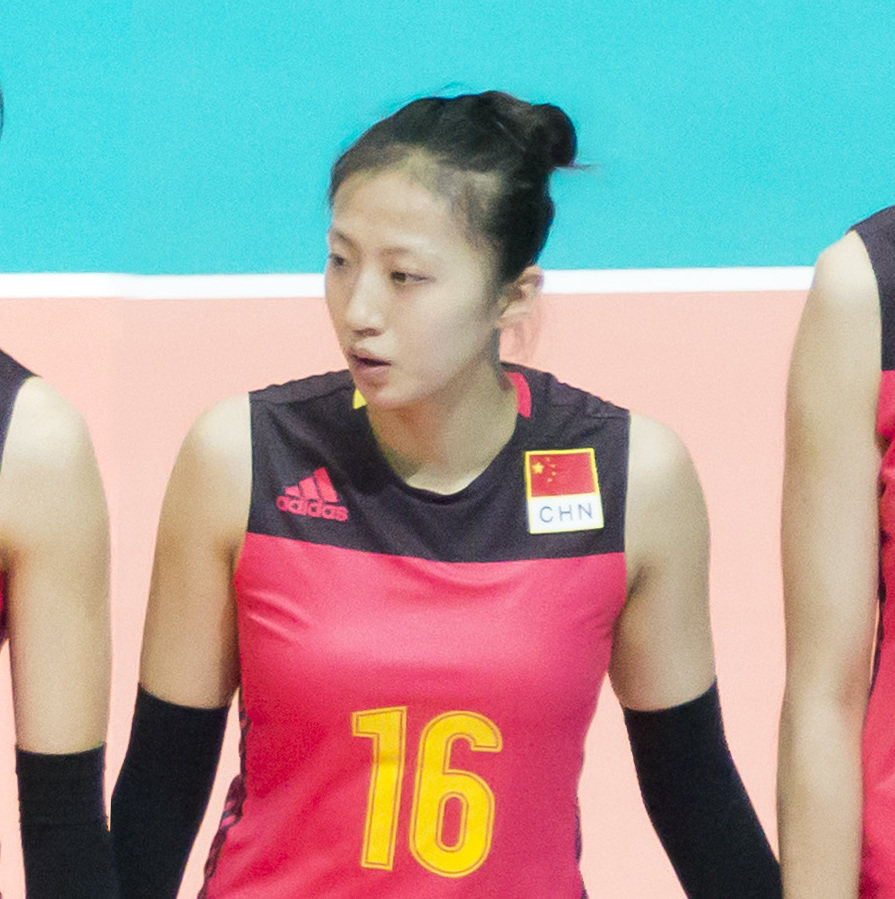 China team 1. XINYUE YUAN袁心玥 2. TING ZHU朱婷 3. JING LI 4. JINGWEN QIAN 5. YI GAO高意 6. XIANGYU GONG龚翔宇 8. DI YAO 姚廸 10. XIAOTONG LIU刘晓彤 12. YIXIN ZHENG 15. LI LIN林莉 16. XIA DING丁霞 17. YUANYUAN WANG 18. MENGJIE WANG 21. YUNLU WANG